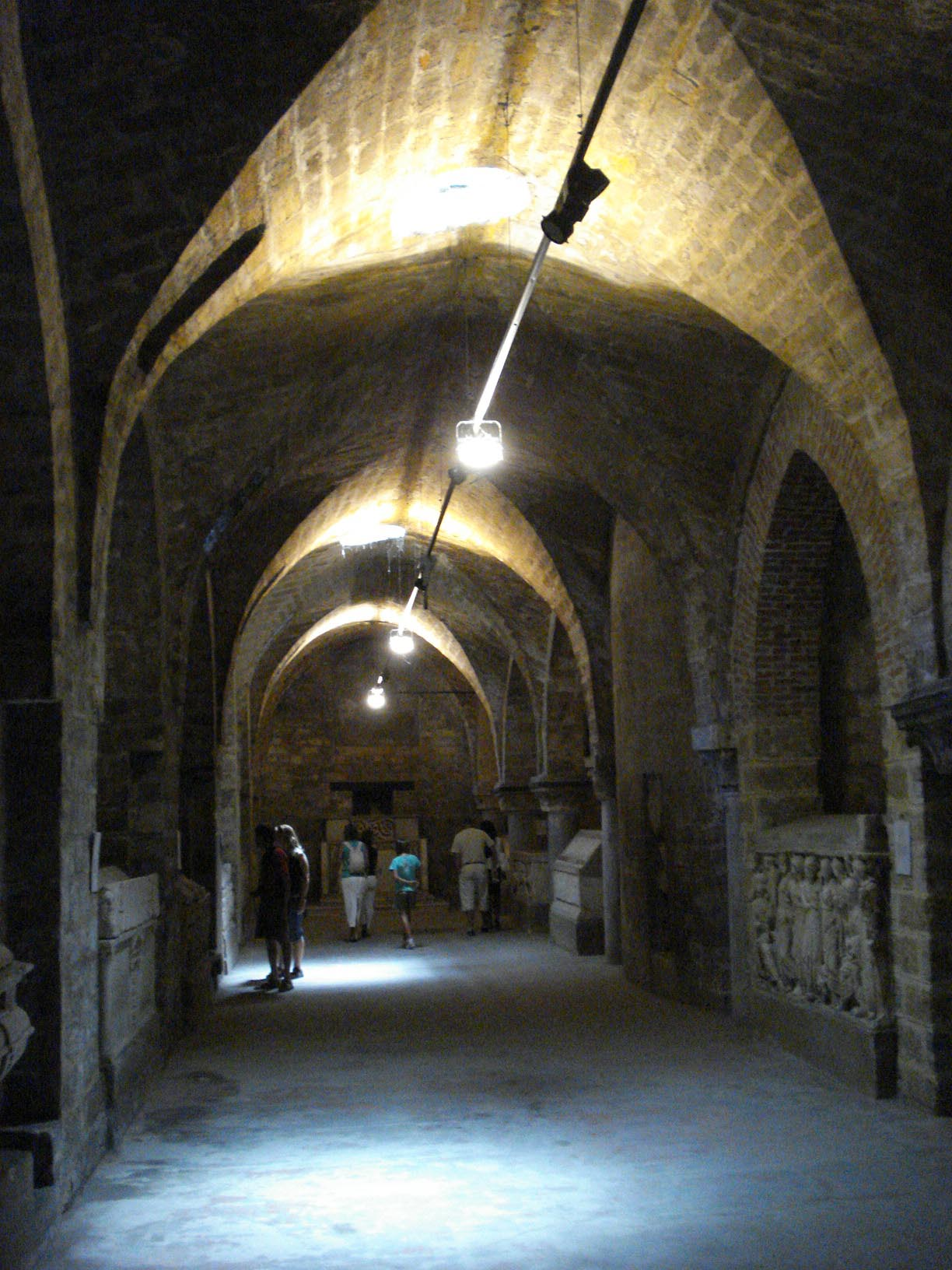 Palermo Cathedral crypt